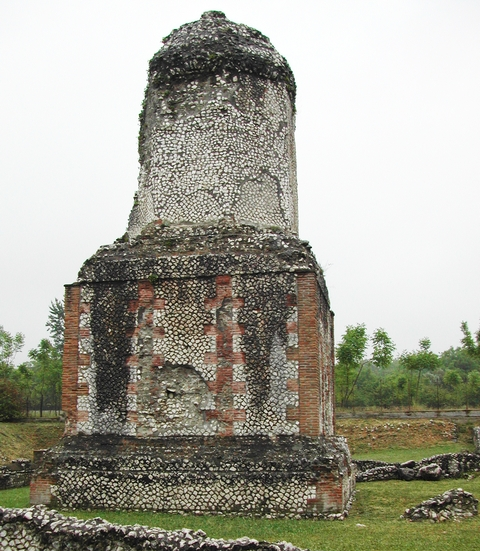 Monumento sepolcrale romano - I monumenti funerari furono costruiti dall'età tardo-repubblicana fino al II secolo d.C.. A pianta inferiore quadrangolare e parte superiore circolare o poligonale, terminante in cuspide, o sormontati da un'edicola.